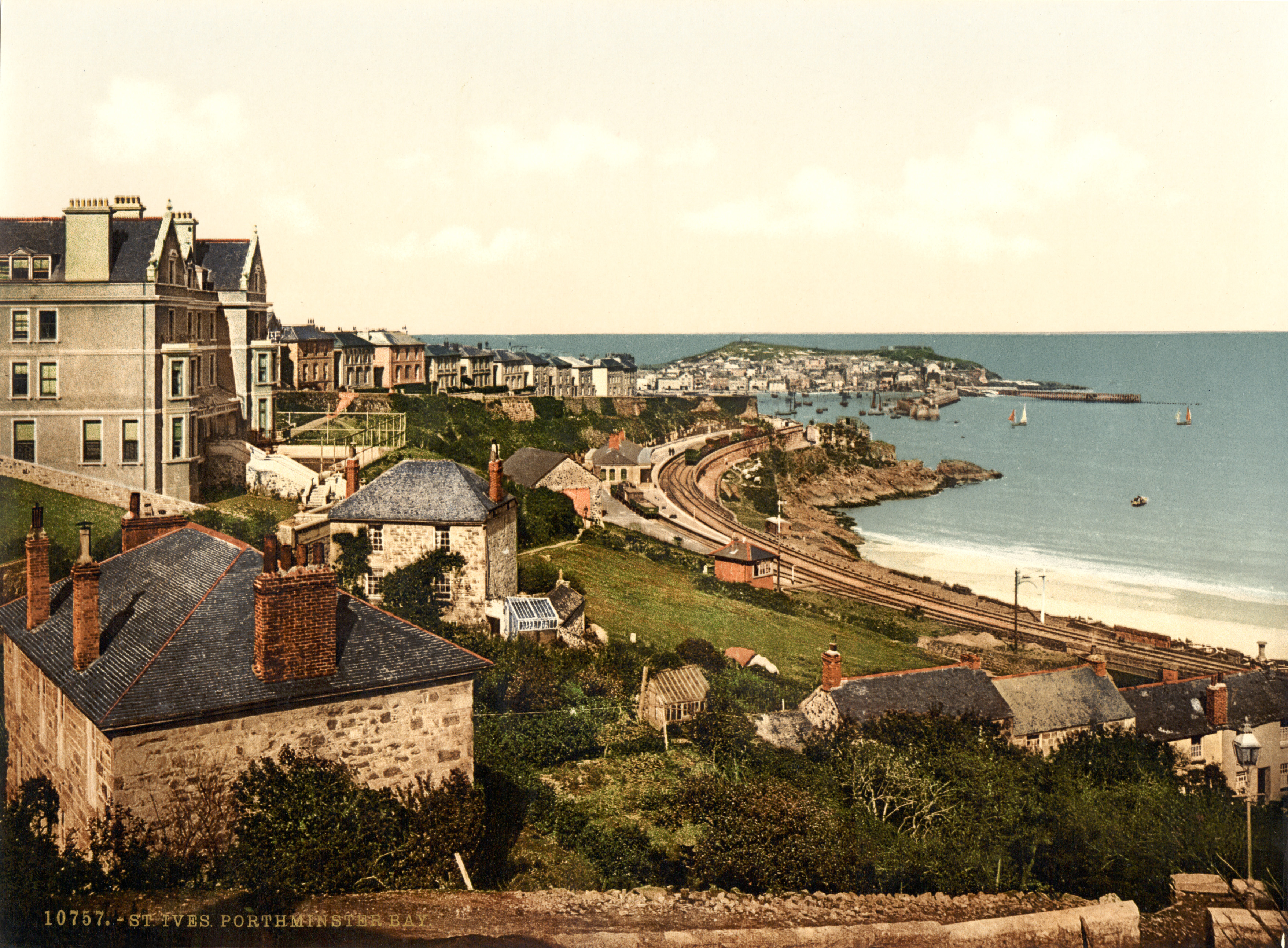 St. Ives, Porthminster Bay, Cornwall, England